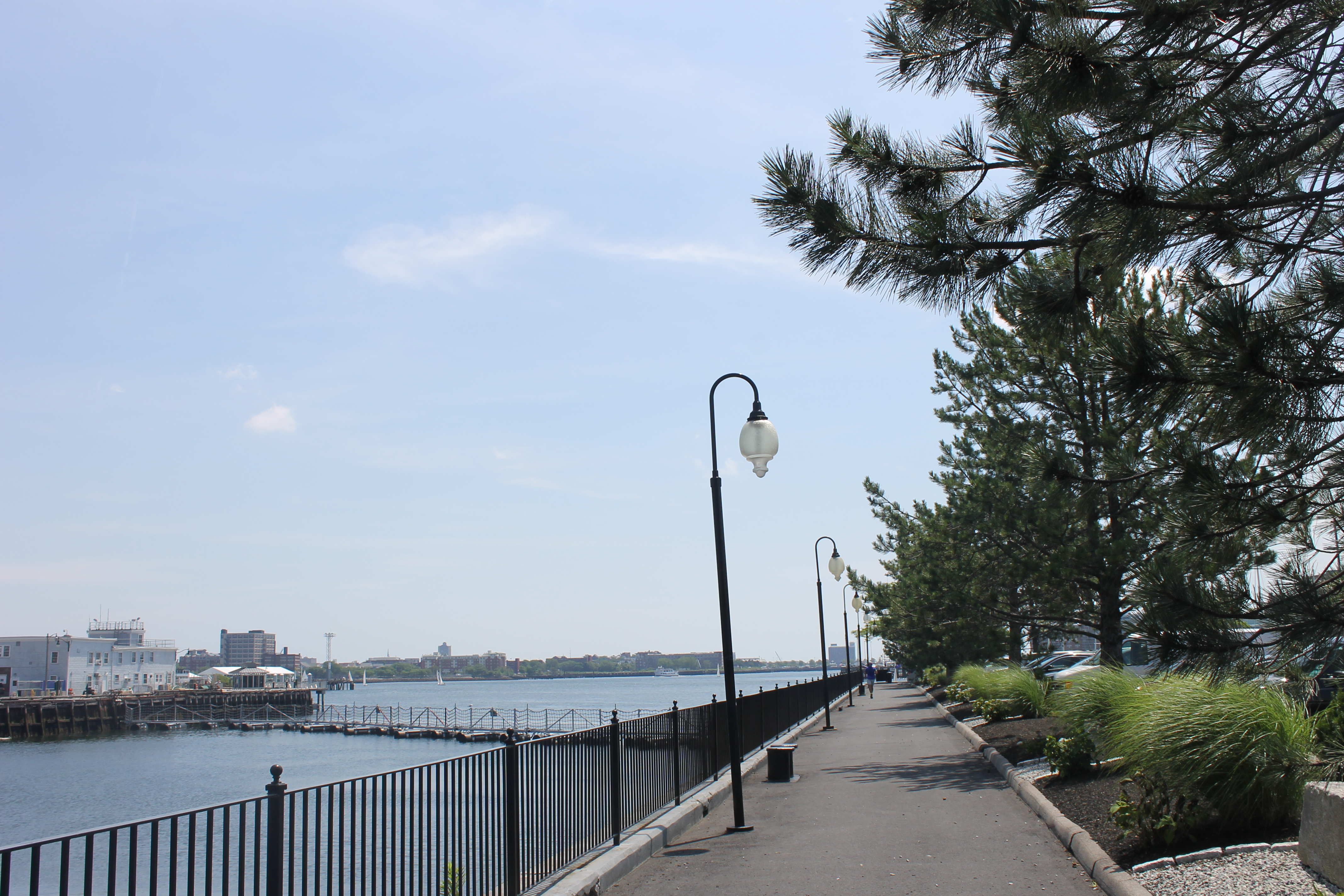 Harborwalk just west of the USS Constitution in Charlestown, Boston